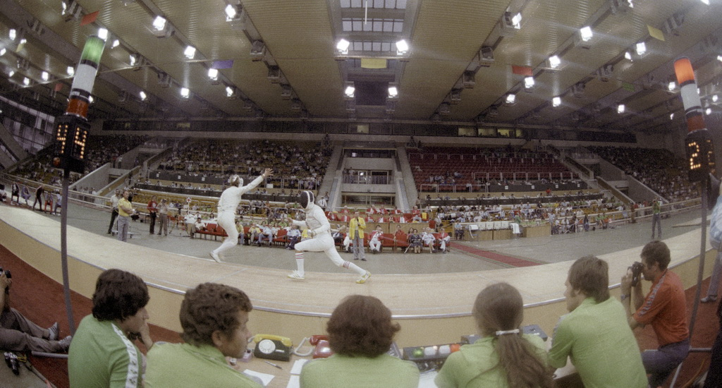 “Women's fencing competitions. XXII Olympic Games”. Women's fencing competitions. XXII Olympic Games in Moscow.